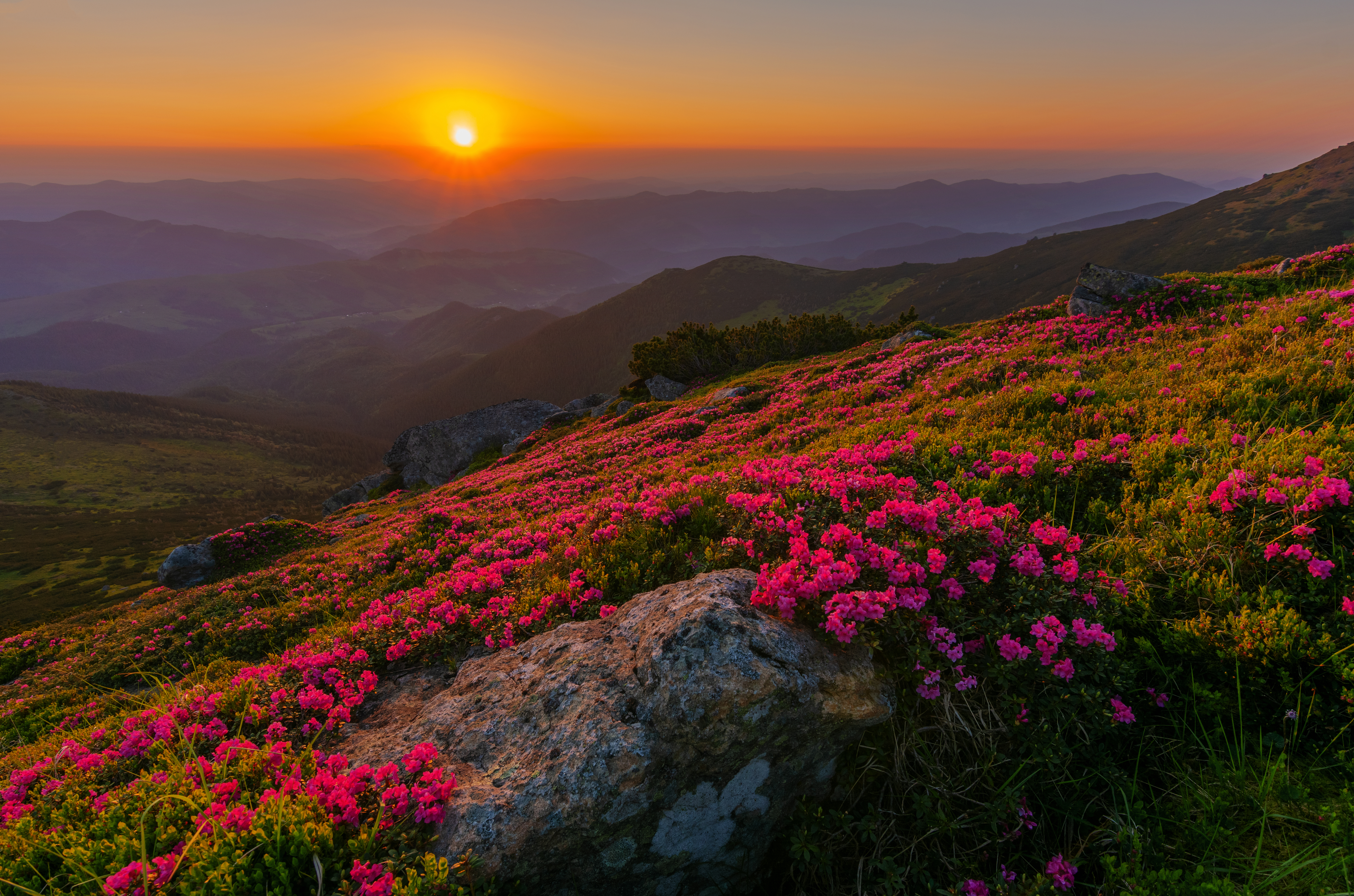 Dawn on mountain Vykhatiy Kamin. Carpathian National Nature Park, Ivano-Frankivsk Oblast.